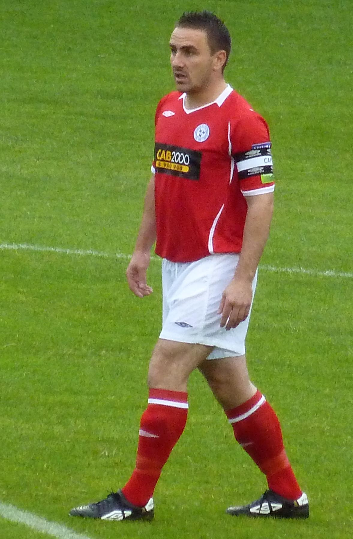 The Irish football player David McGill